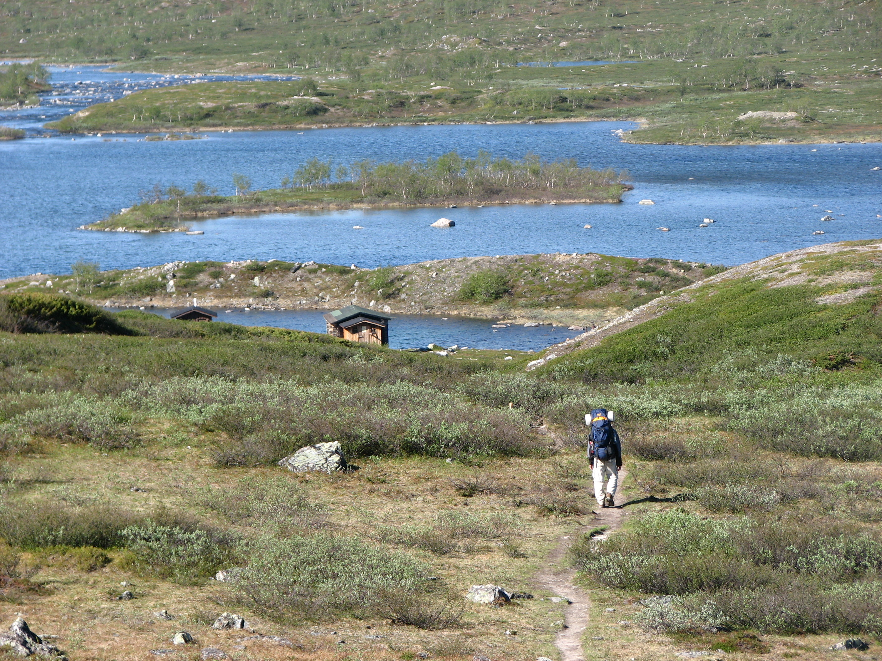 Nordkalottleden Trail goes via Meekonjärvi lake in Enontekiö, Finland.